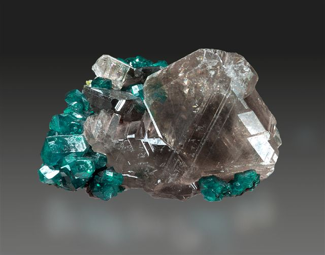 Cerussite, Dioptase Locality: Tsumeb Mine (Tsumcorp Mine), Tsumeb, Otjikoto (Oshikoto) Region, Namibia (Locality at ) Since many years ago when I first walked into their basement and saw the collection, I have lusted after this piece. It is a simply gorgeous association, featuring a dark smoky , gemmy cerussite crystal perched in a nest of dioptase! Pristine save for one tiny, almost-unnoticeable ding, this was one of my favorite mini's in the collection. Erik Louw was a miner on the dioptase stope who traded extensively and accumulated one of the finest Tsumeb miniatures collections, purchased in entirety by the Sussmans in the late 1990's. 5 x 3.5 x 3.5 cm